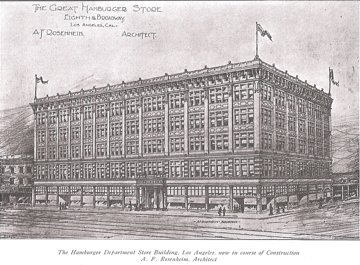 Article=Alfred Rosenheim Description=Photograph of Hamburger Department Store designed by Rosenheim Source=The Architect and Engineer of California, March 1907, p. 40 Published in the United States before 1923.